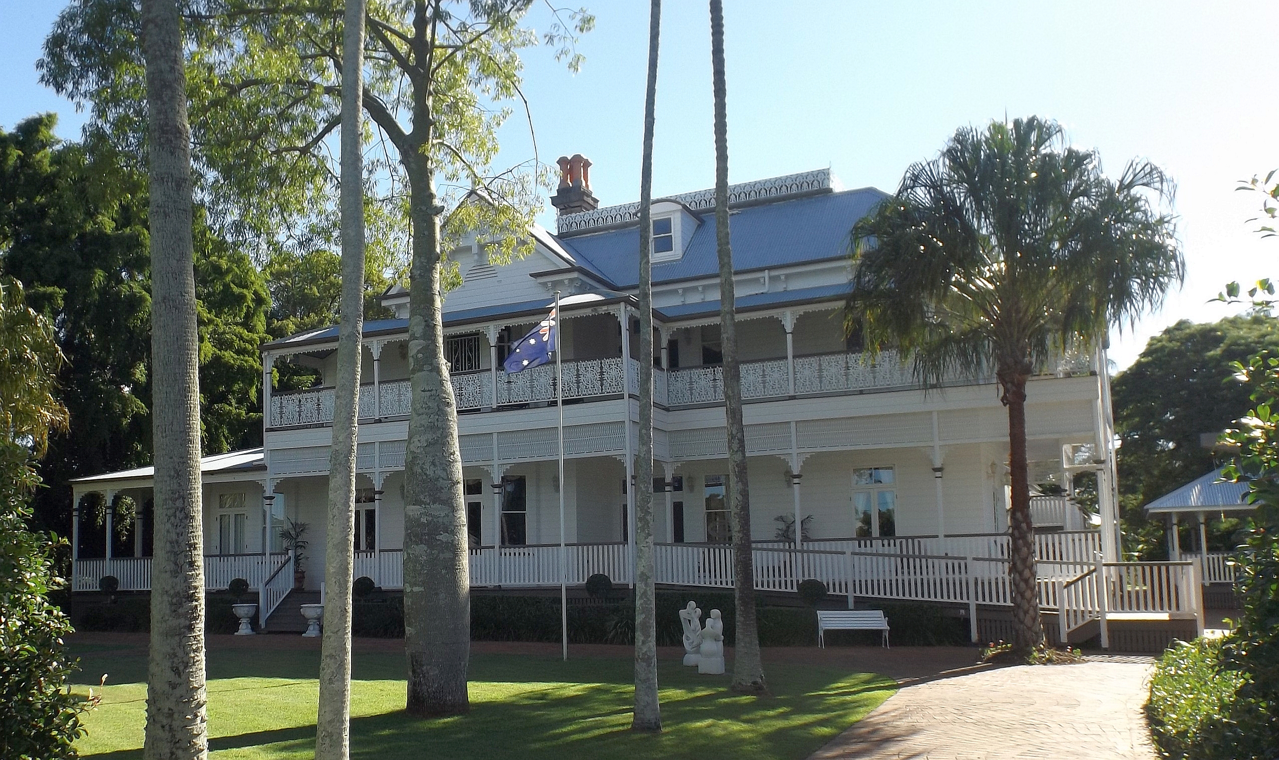 Photo of Whepstead from the rear entrance at Wellington Point, Brisbane, City of Redland, Queensland, Australia.